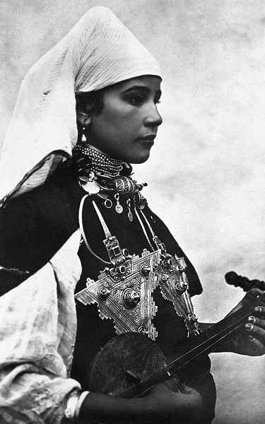 Historical photographs of Moroccan women.